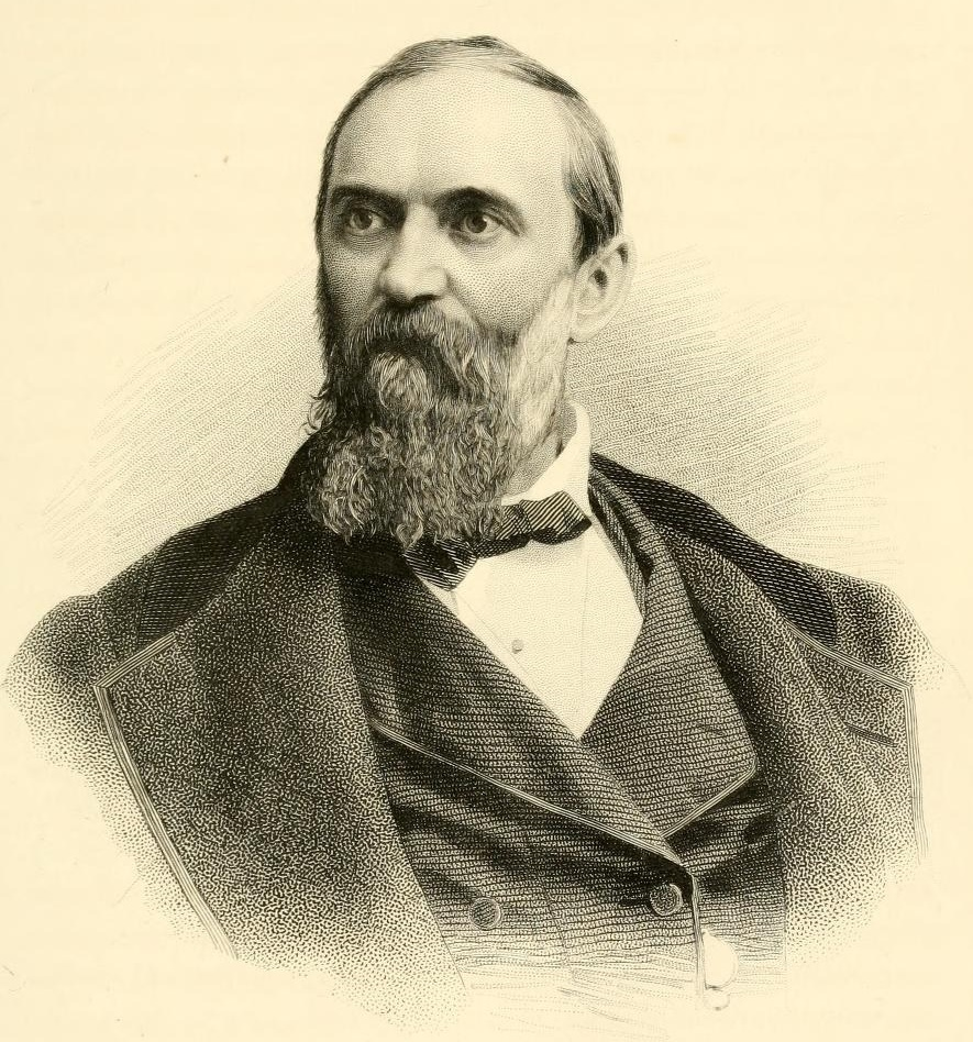 William Orton (Western Union President)